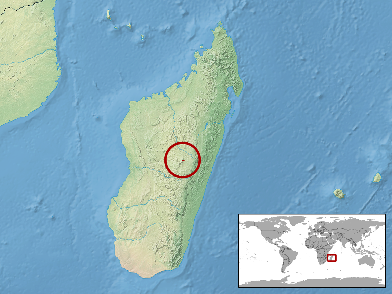 geographic distribution of Lygodactylus mirabilis (Native: Madagascar)